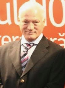 Valeriu Stoica la targul de carte Gaudeamus 2009